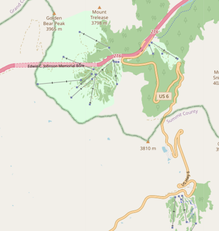 Section of OpenStreetMap showing Loveland Pass, Colorado, with Interstate 70, including the Eisenhower Tunnel, and US 6, as well as Loveland Ski Area and Arapahoe Basin resorts. Also illustrates some issues with Cartographic generalization